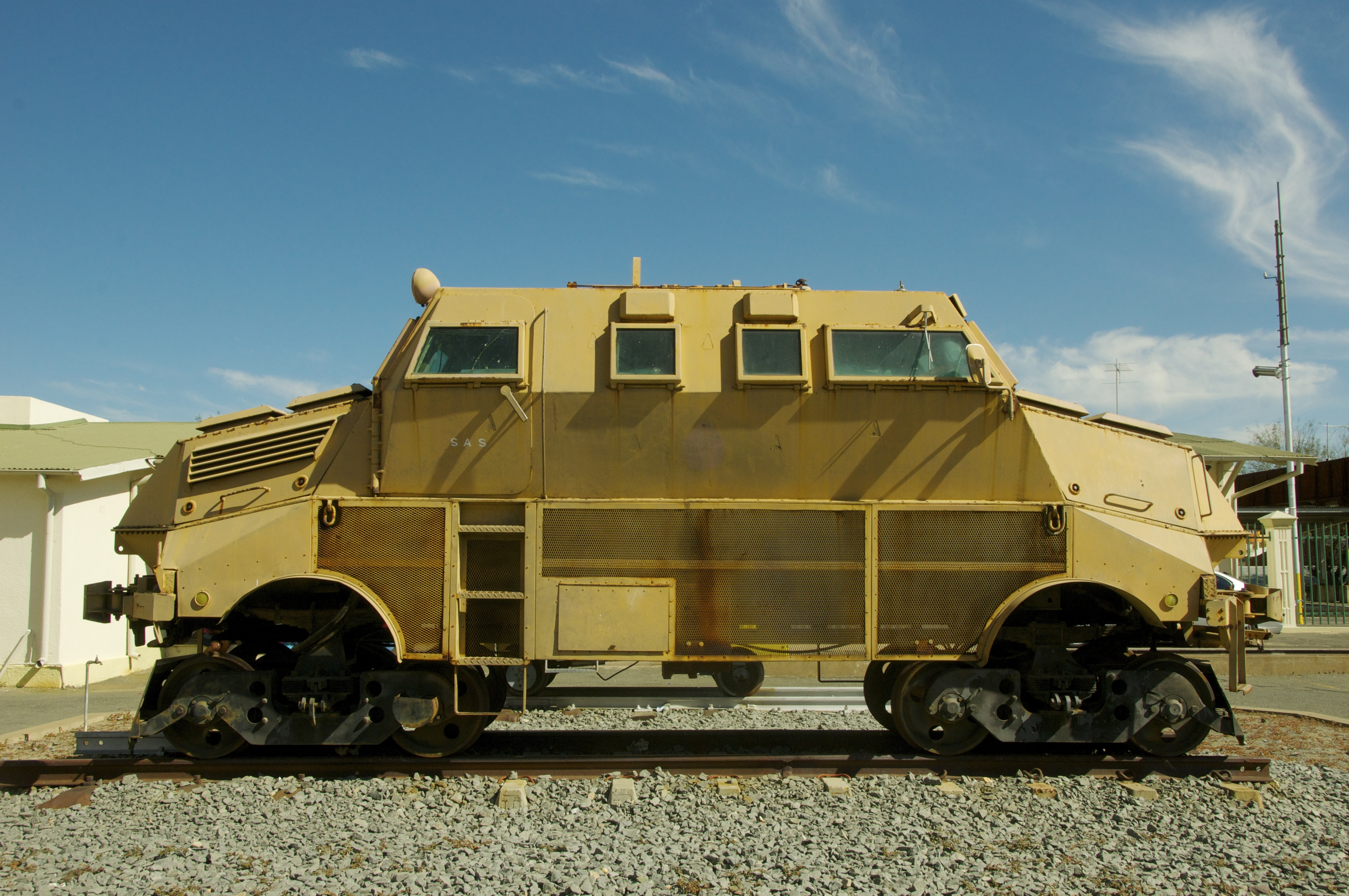 This is an image with the theme "Africa on the Move or Transport" from: Namibia